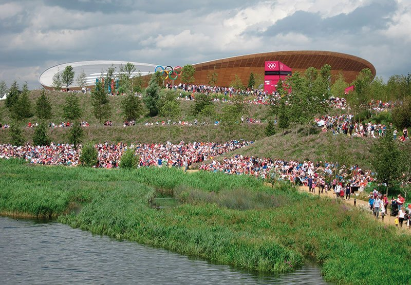 The Velodrome in use during the 2012 Games